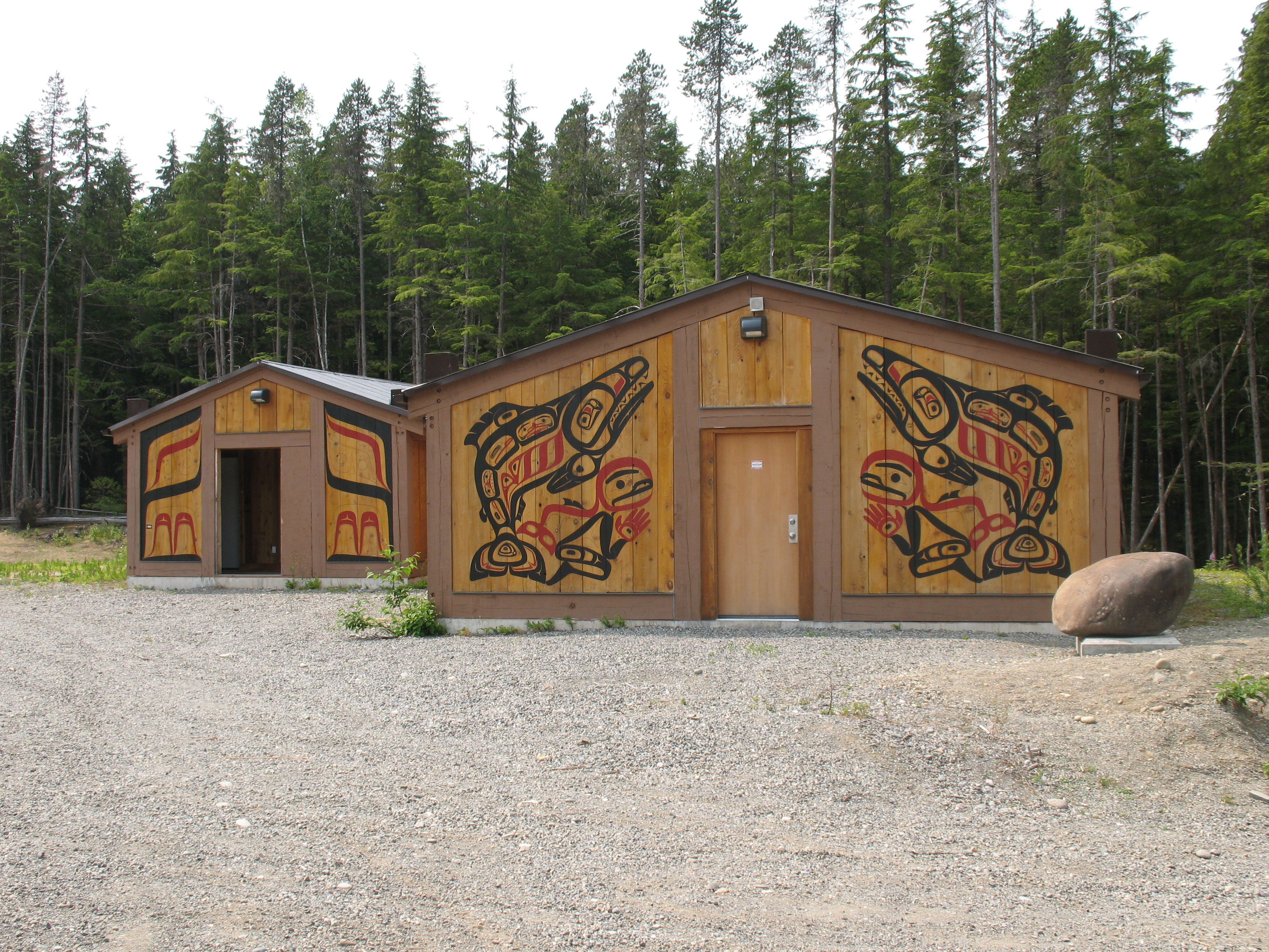 House in Gitselas Canyon, B. C.